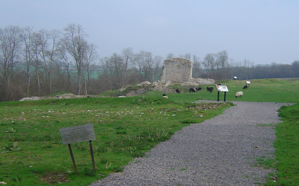 A photo taken by myself on 1st April 2005.